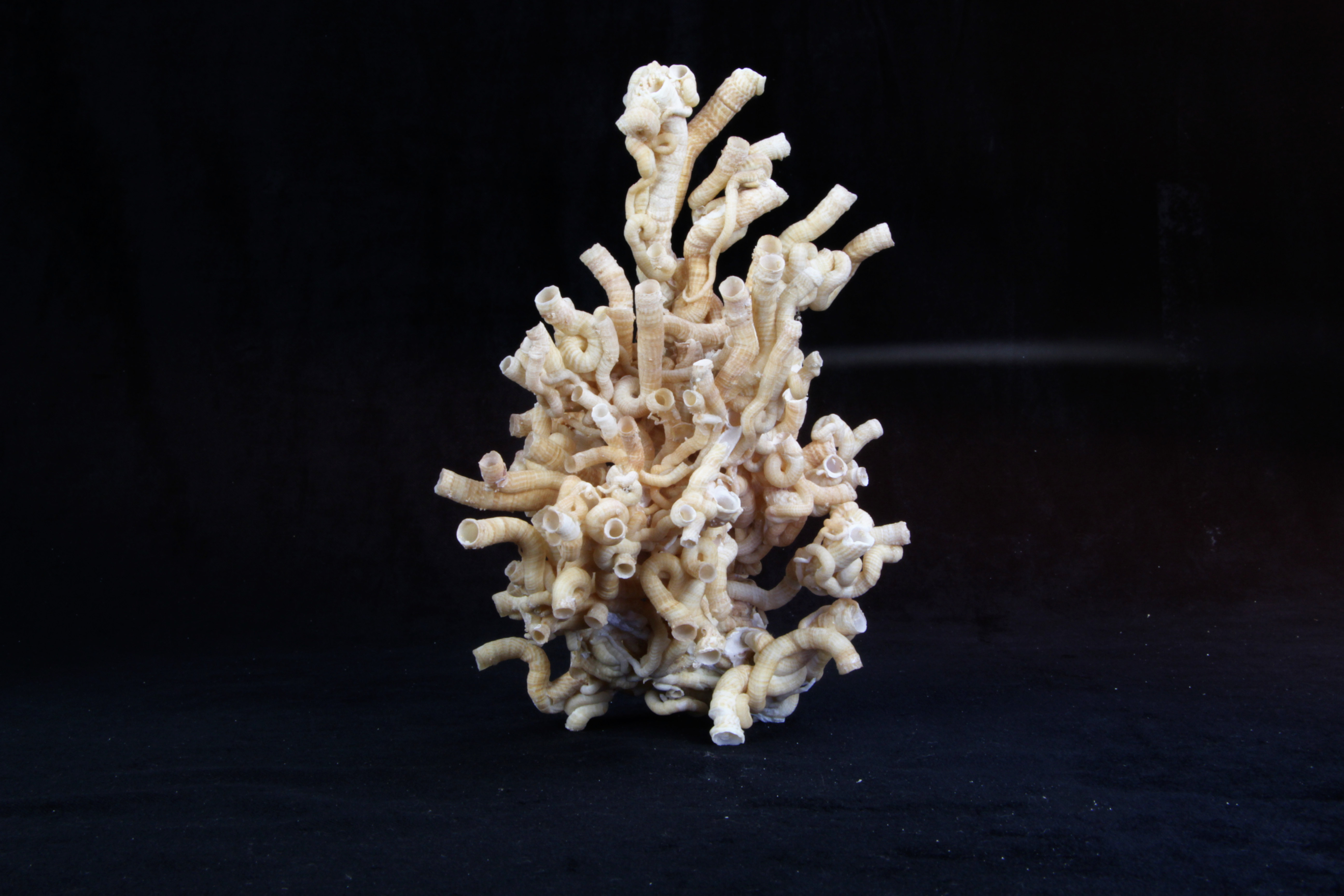 siliquaria, slit worm snail